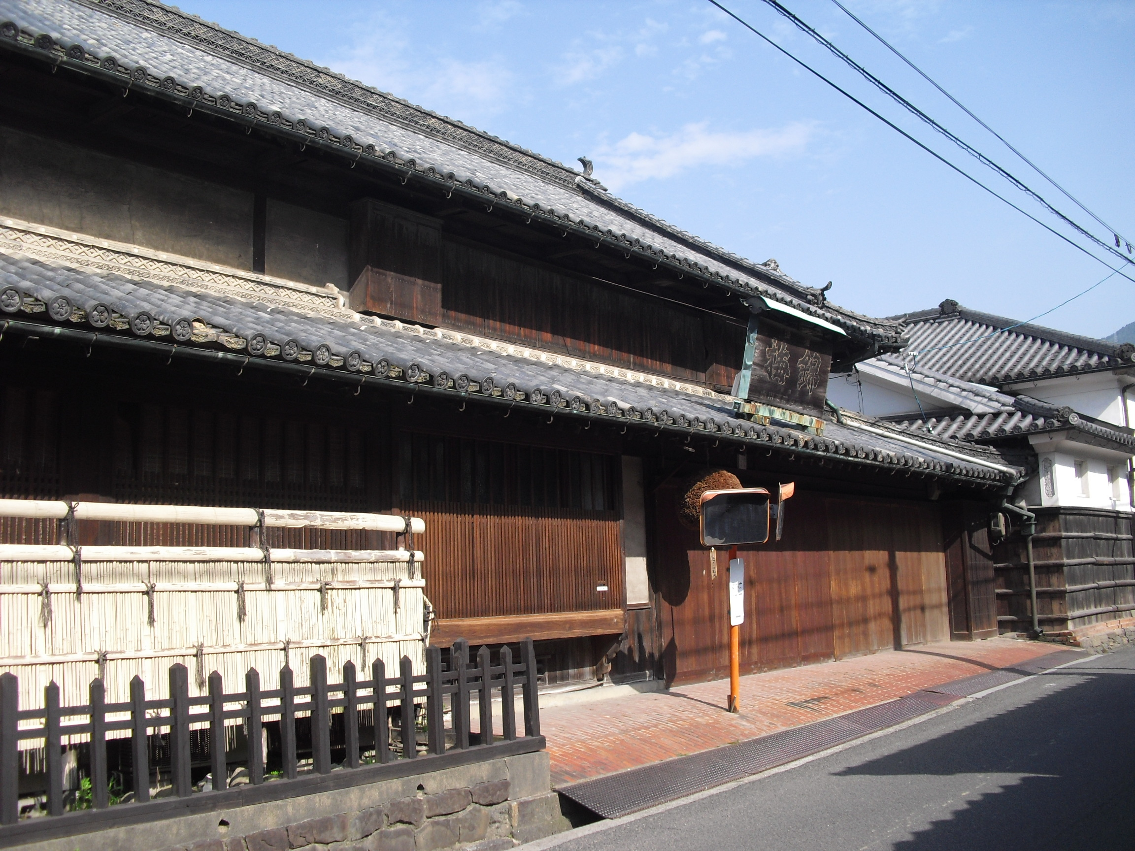 Umenishiki-Main building